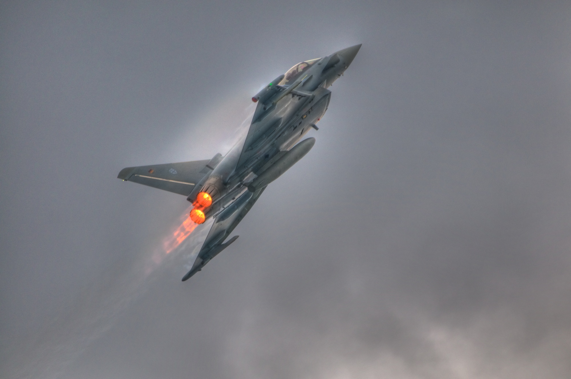 Sion Airshow 2011.